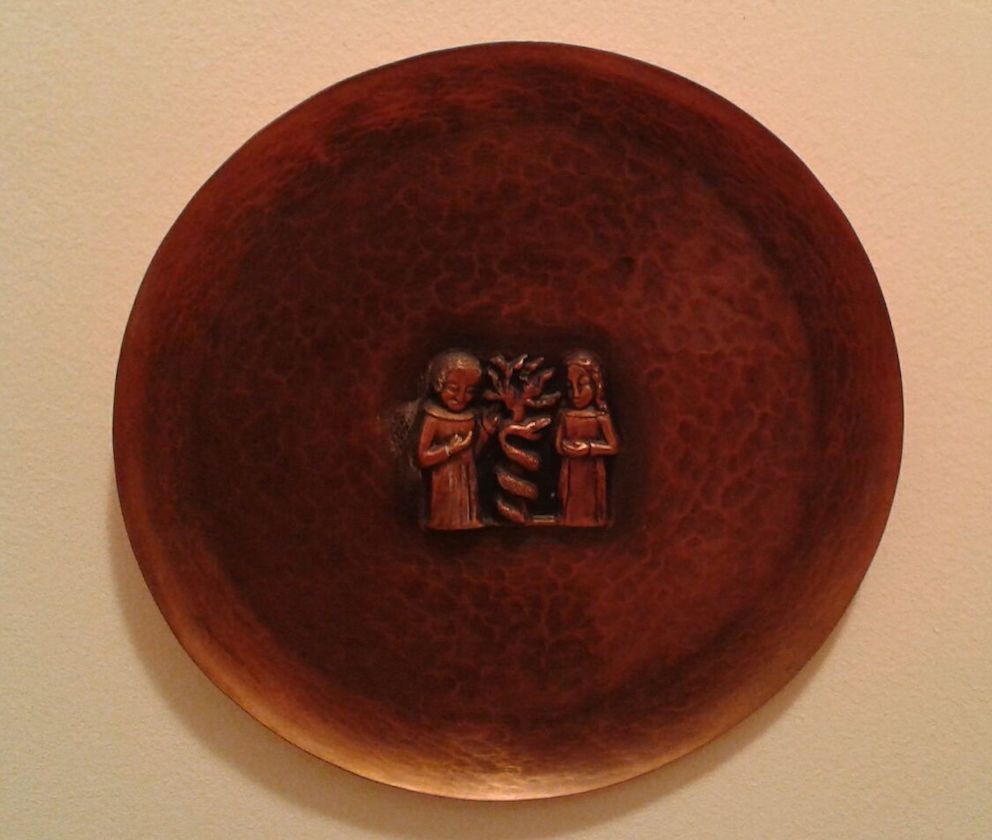 Cooper Plate Margit Tevan